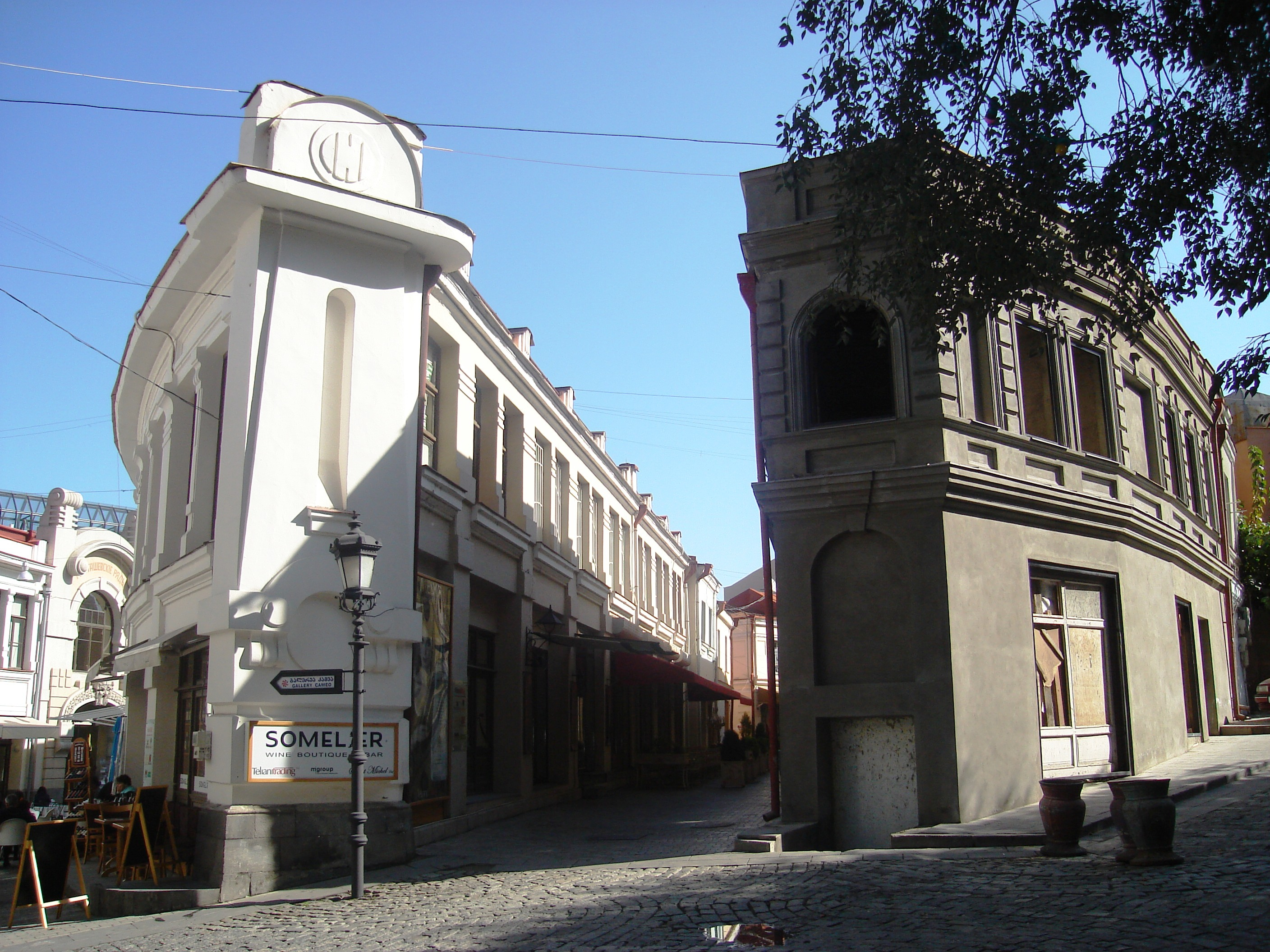 Old Tbilisi